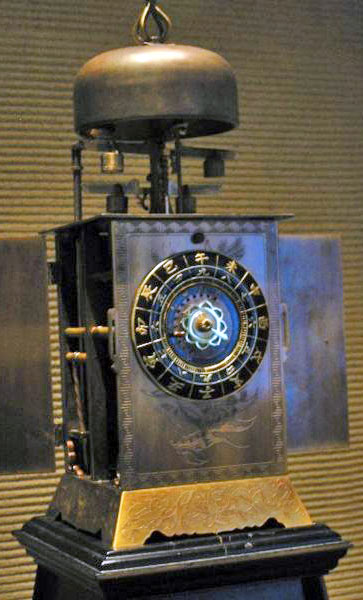 Clockwatch of the mid-Edo period, 18th century Japan. In Tokyo National Science Museum, 2004.